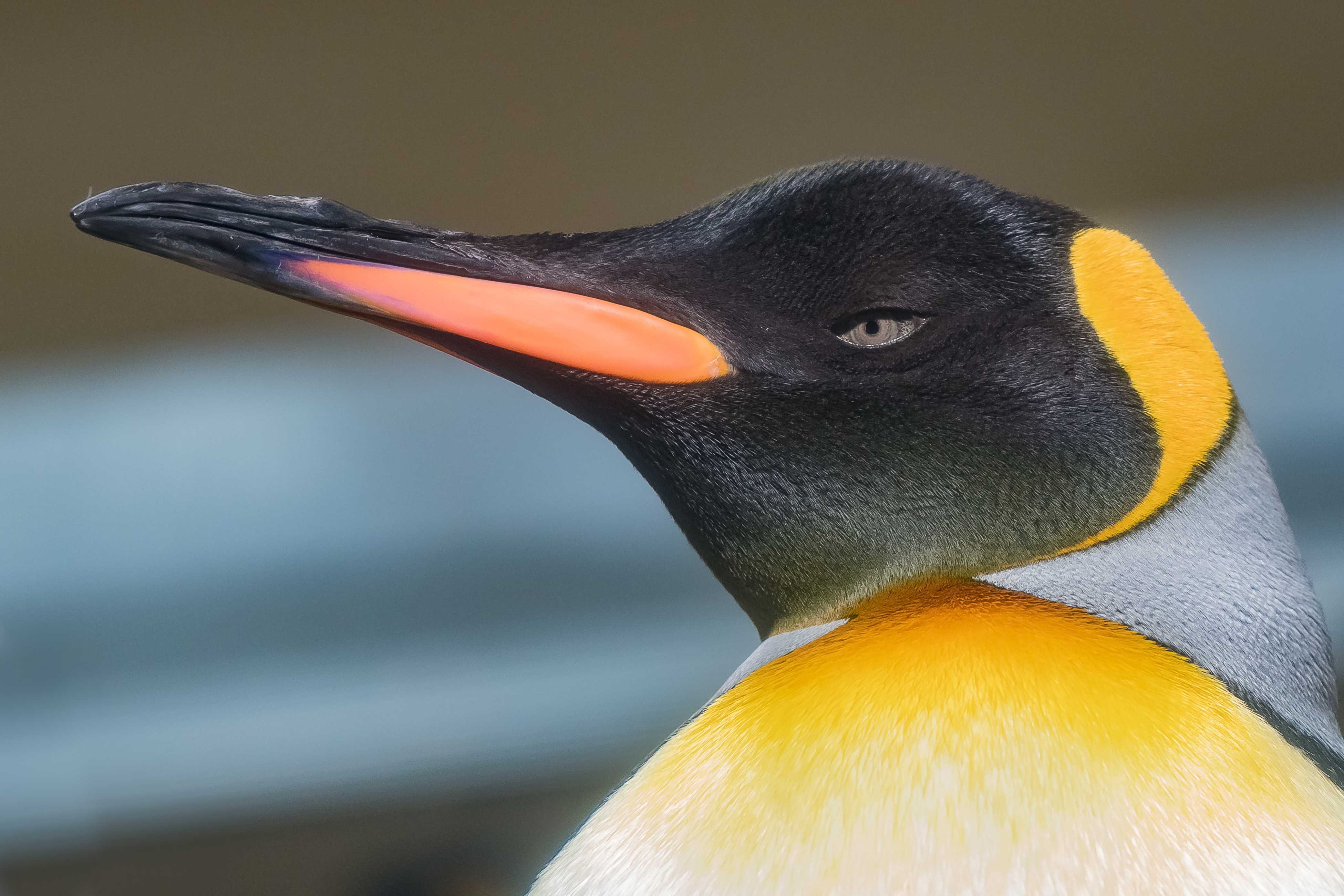 This king penguin (Aptenodytes patagonicus) is resident of Tiergarten Schönbrunn (Vienna).